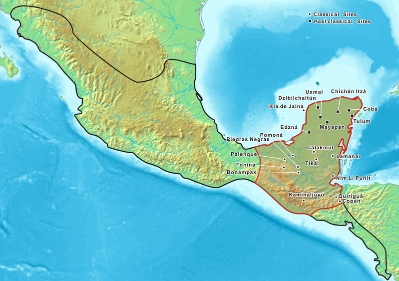 The original image is which is used in the Spanish Wikipedia. This version has the Legend translated to English for use in the Wikipedia of that language